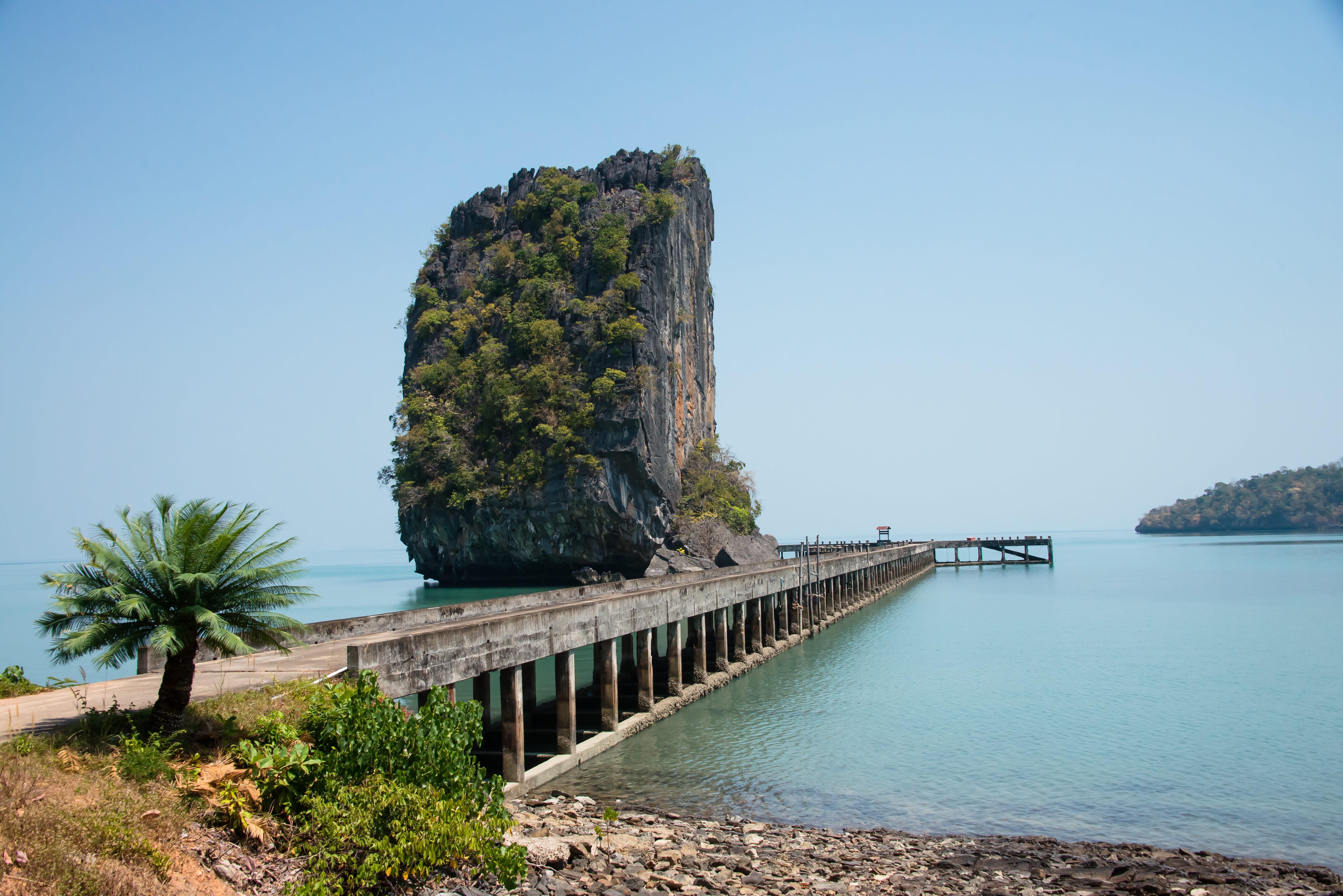 This photo is published under Creative Commons Attribution-Share-Alike Licence, means you are free to use this photo with attribution under same licence. When giving attribution, please use following; Owner: Thai National Parks Link